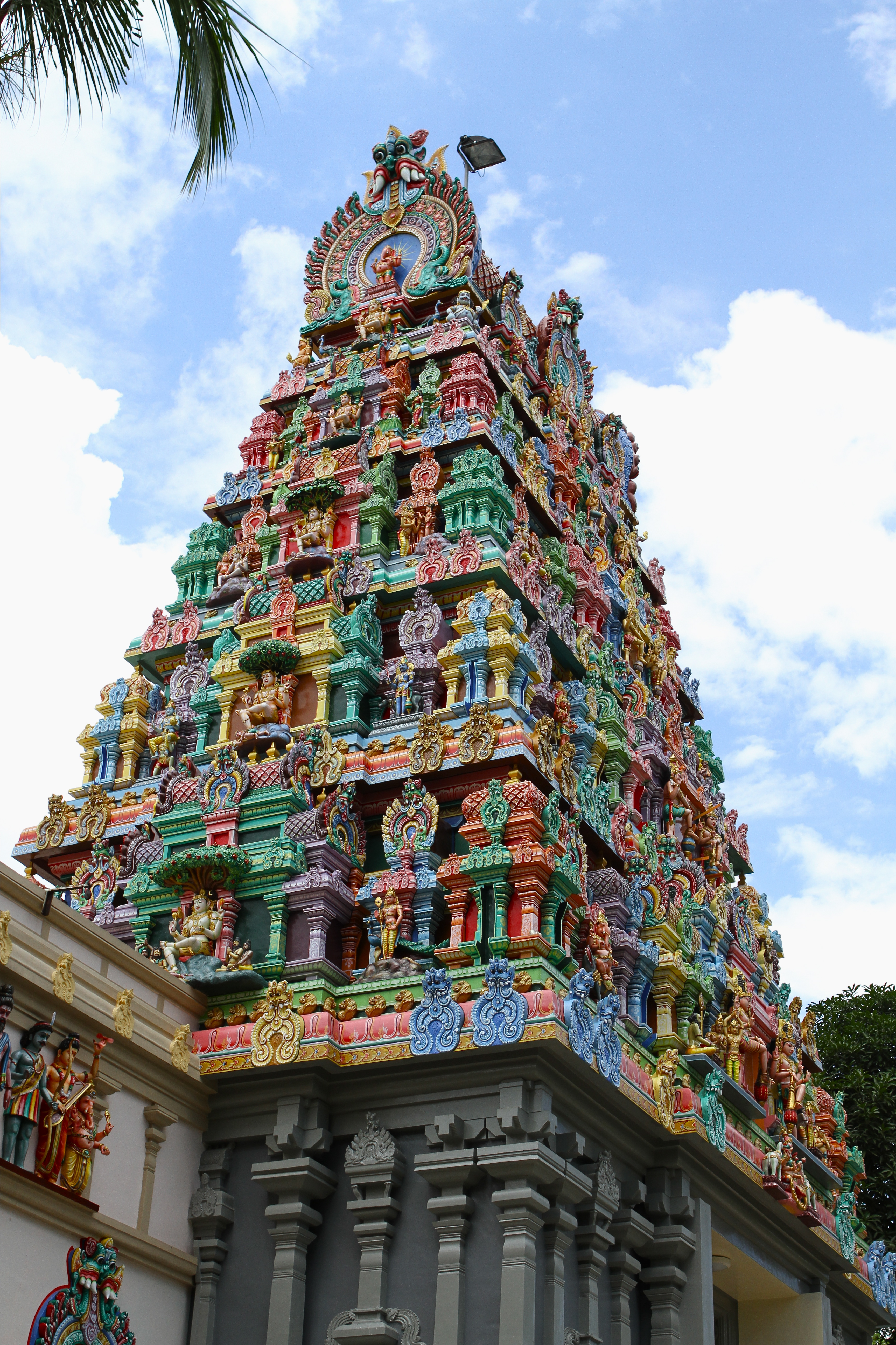 The gopuram of Sri Thendayuthapani Temple on Tank Road in Singapore.